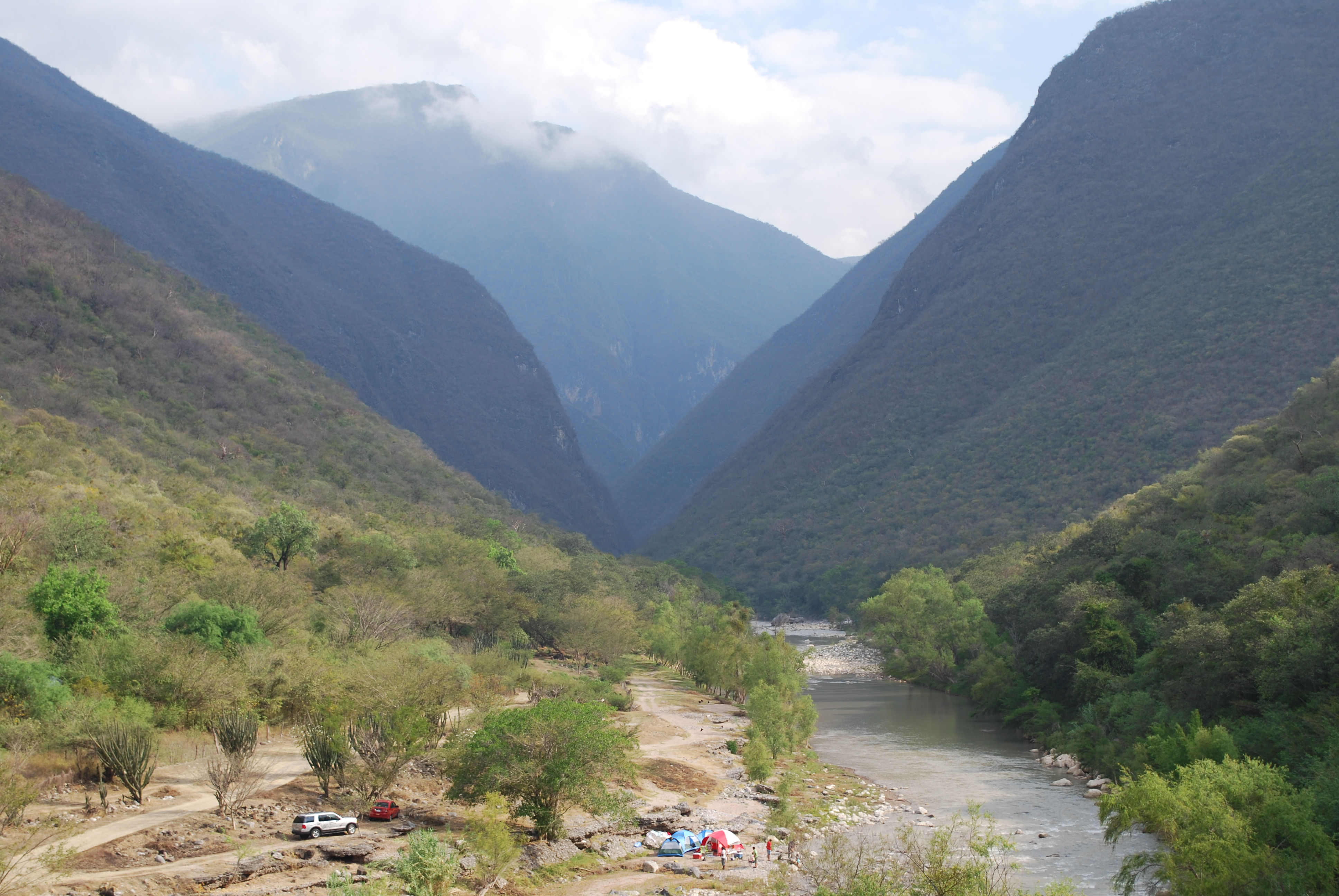 Campers on the Santa María River by Ayutla, Arroyo Seco, Querétaro